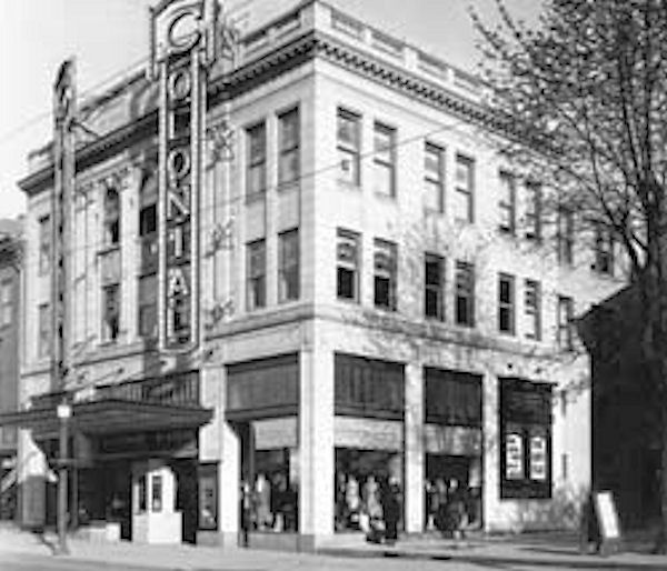 1921 - Colonial Theater - Main Building